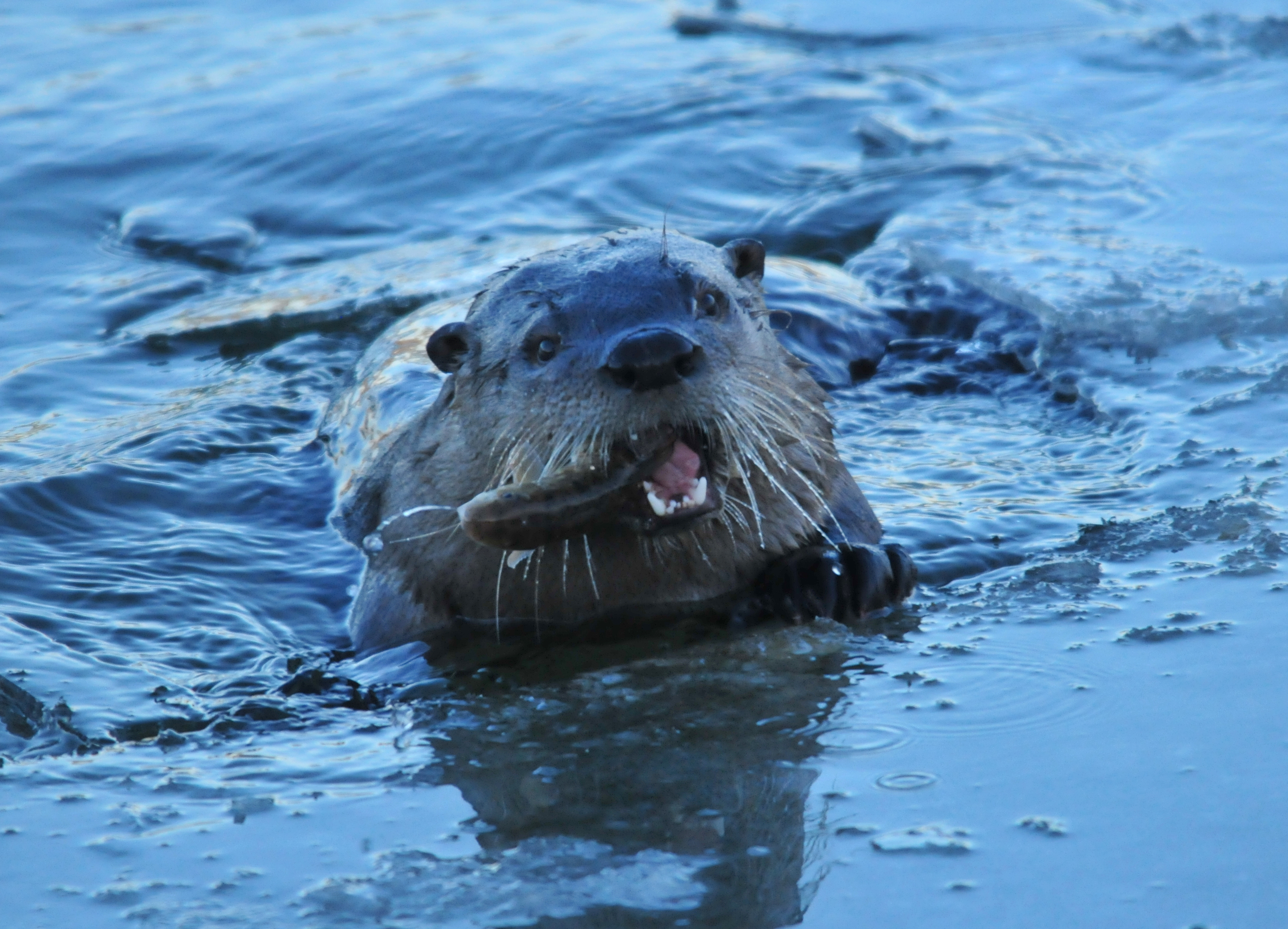 What did you have for your Thanksgiving meal? This northern river otter was feasting on white suckers at Seedskadee NWR. Photo: Tom Koerner/USFWS